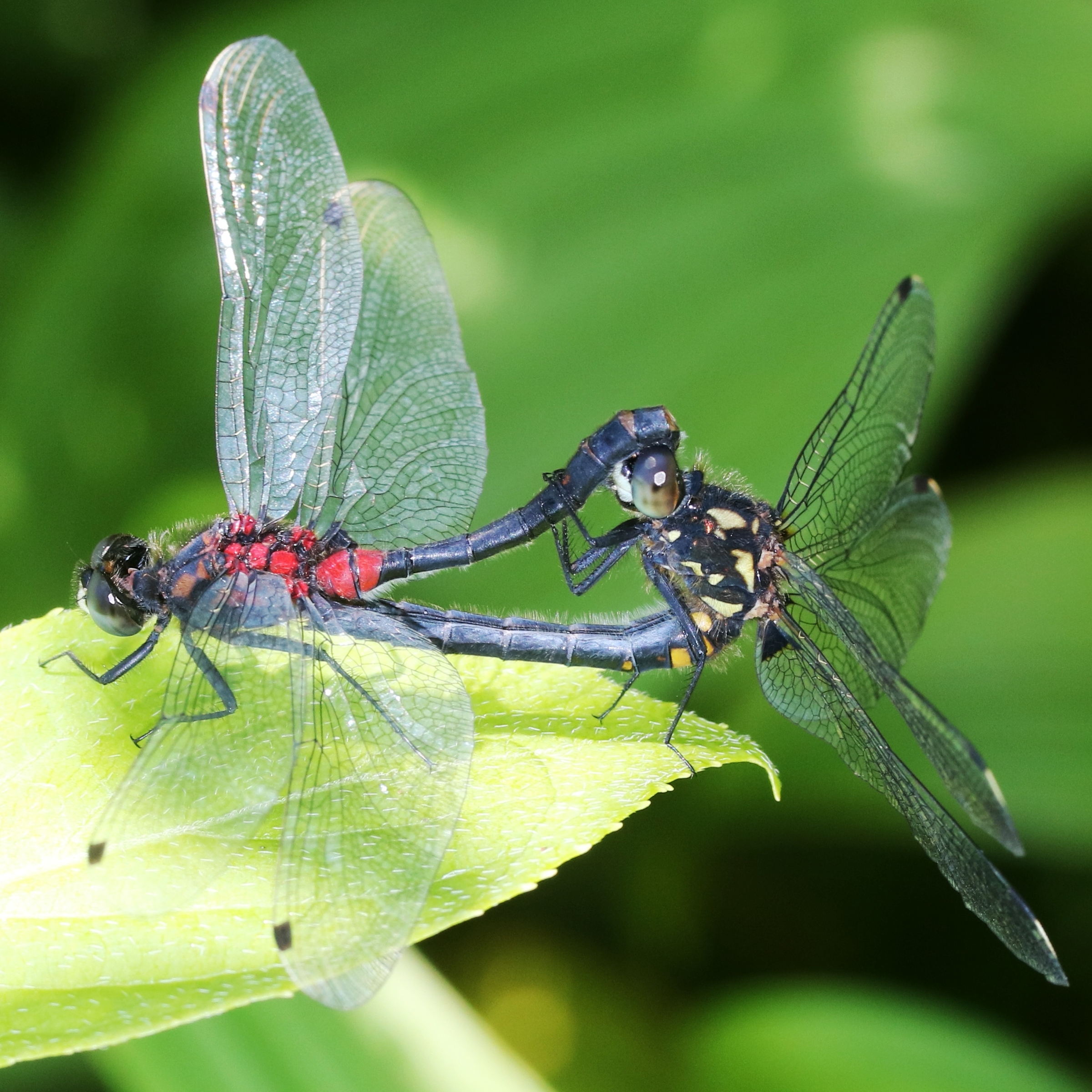 Leucorrhinia dubia mating in Kidaira Wetland, Mount Mominuka, Hida, Gifu prefecture, Japan.